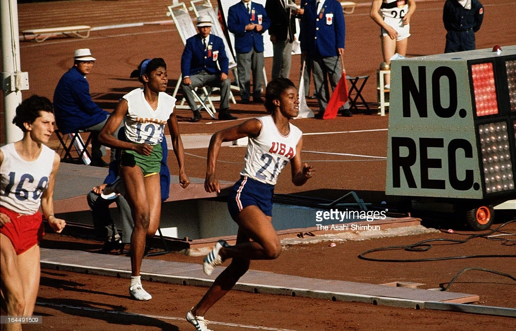 Irena Szewińska, Una Morris, Edith McGuire, 200 m final, 1964 Olympics